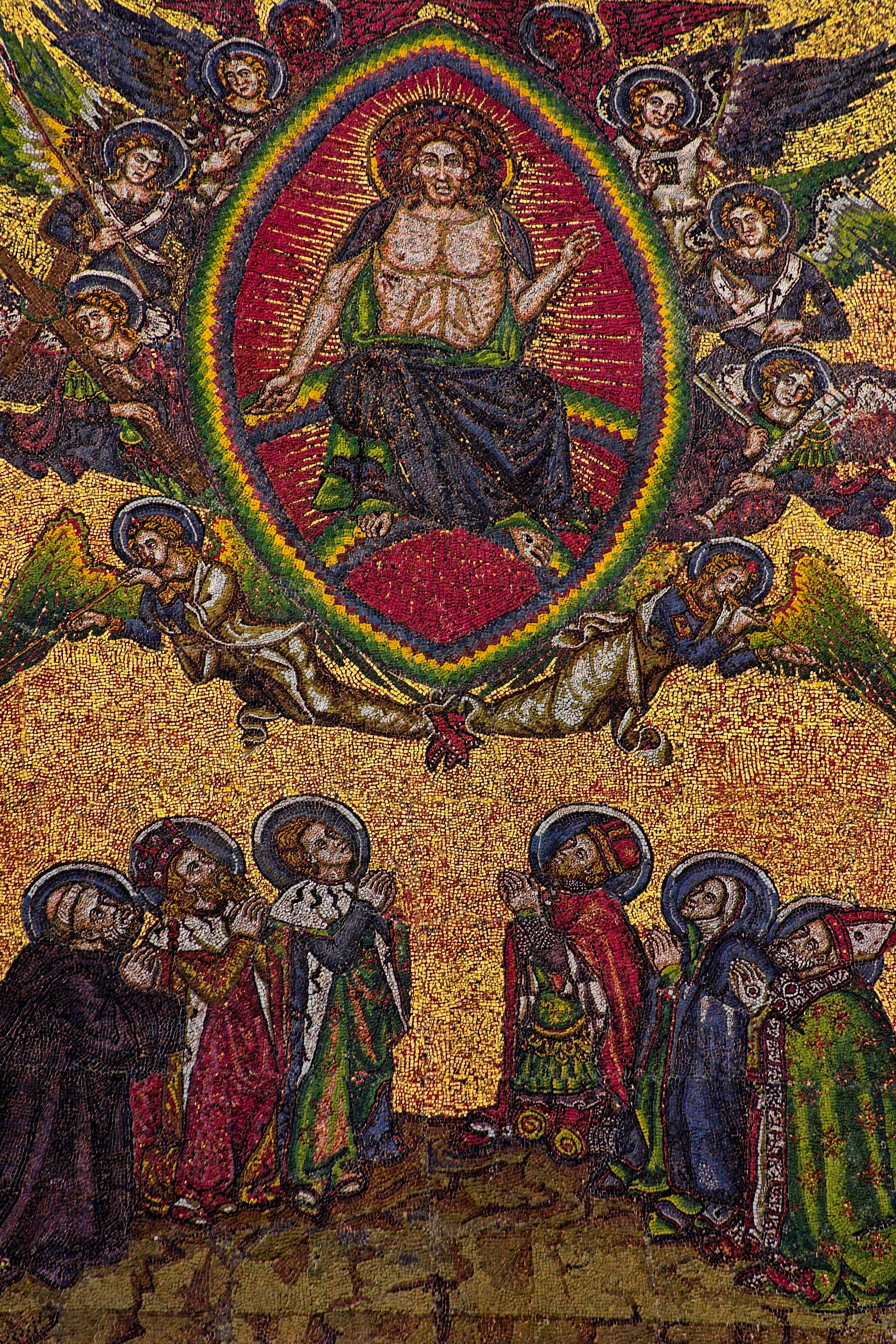 Jesus Christ mosaic, south portal of St. Vitus Cathedral